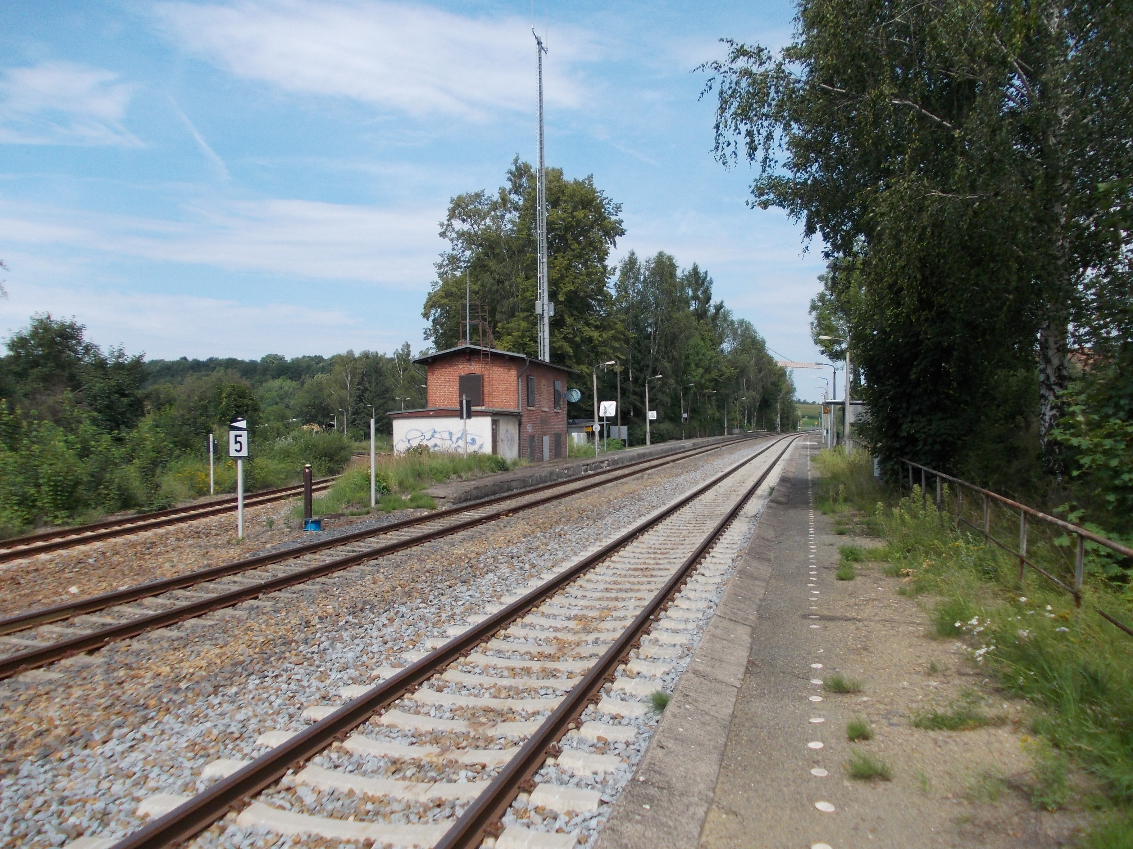 Mittelherwigsdorf train station (Görlitz district, Saxony)